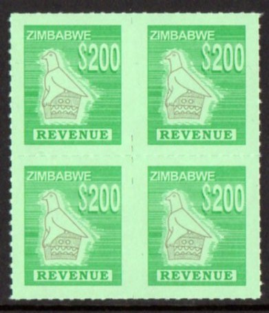 $200 revenue stamps of Zimbabwe featuring the ancient national emblem Bird of Zimbabwe.